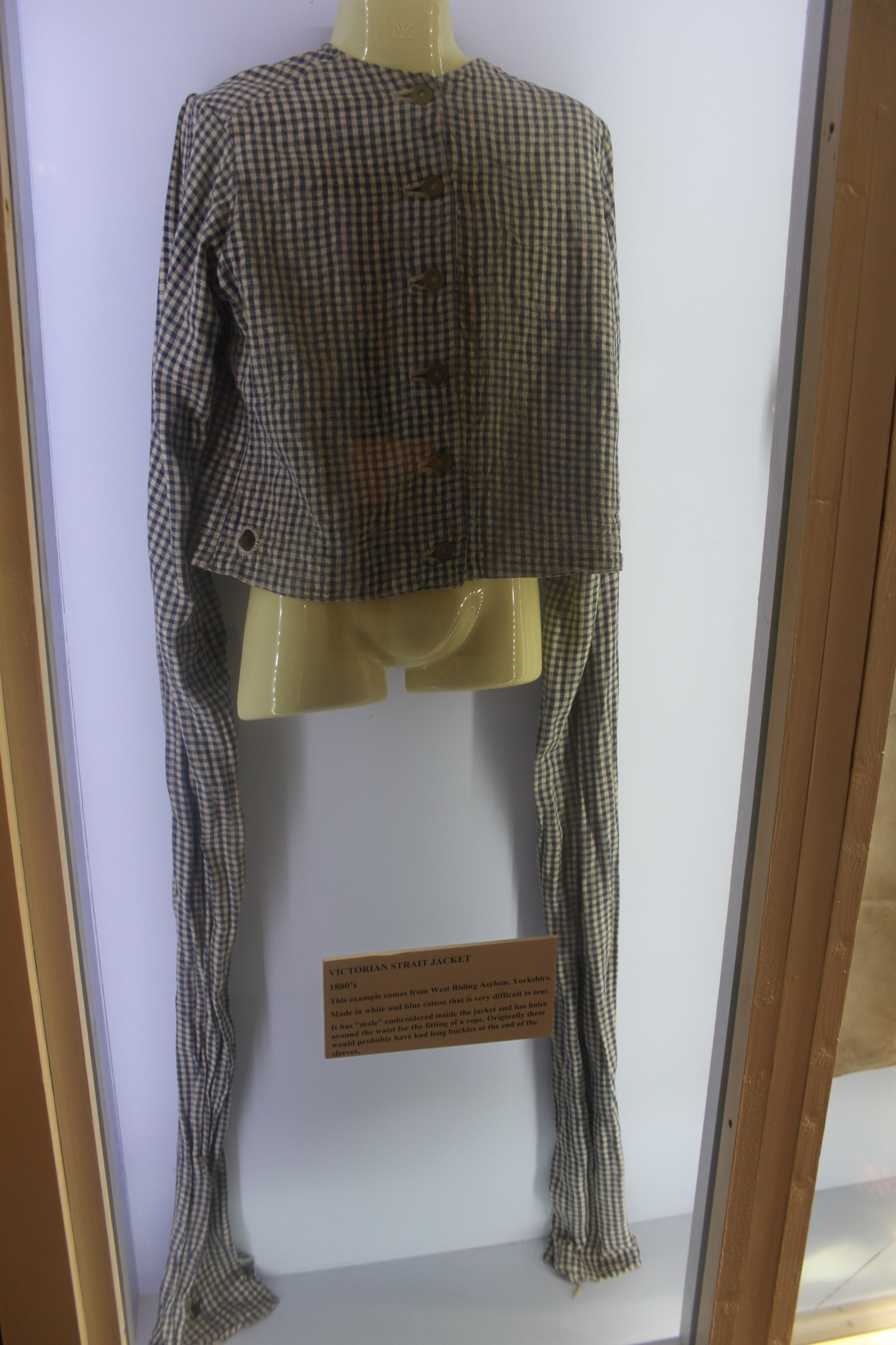 Victorian straight jacket on display at Glenside Museum